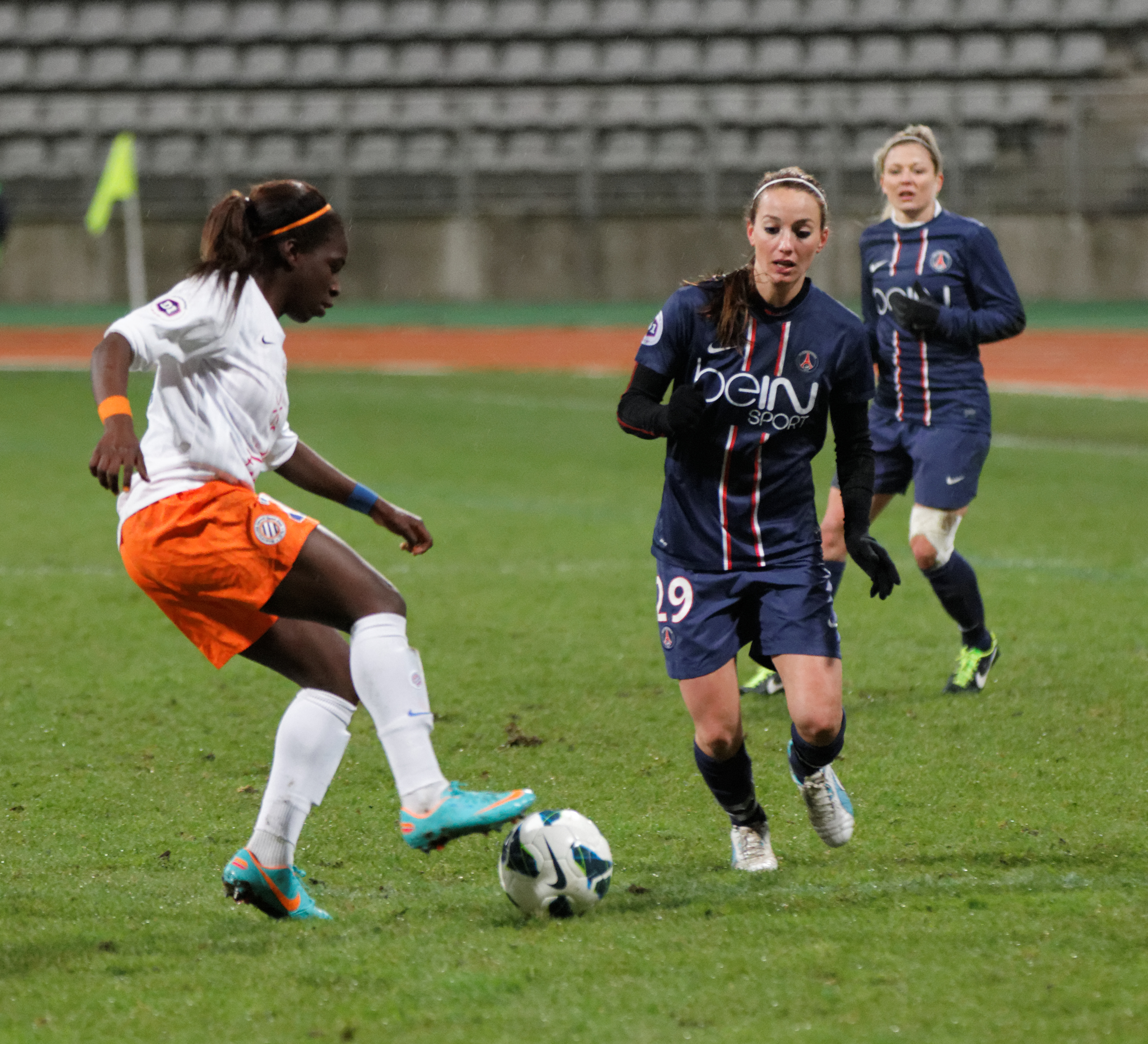 PSG-Montpellier, January 13th, 2013. Viviane Asseyi (Montpellier) and Kosovare Asllani (PSG).